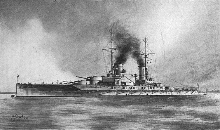 Illustration of the German battleship SMS Kronprinz